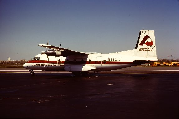 Manufacturer: Nord Aviation Designation: Nord 262 Airline: Allegheny Commuter Serial Number: N26217